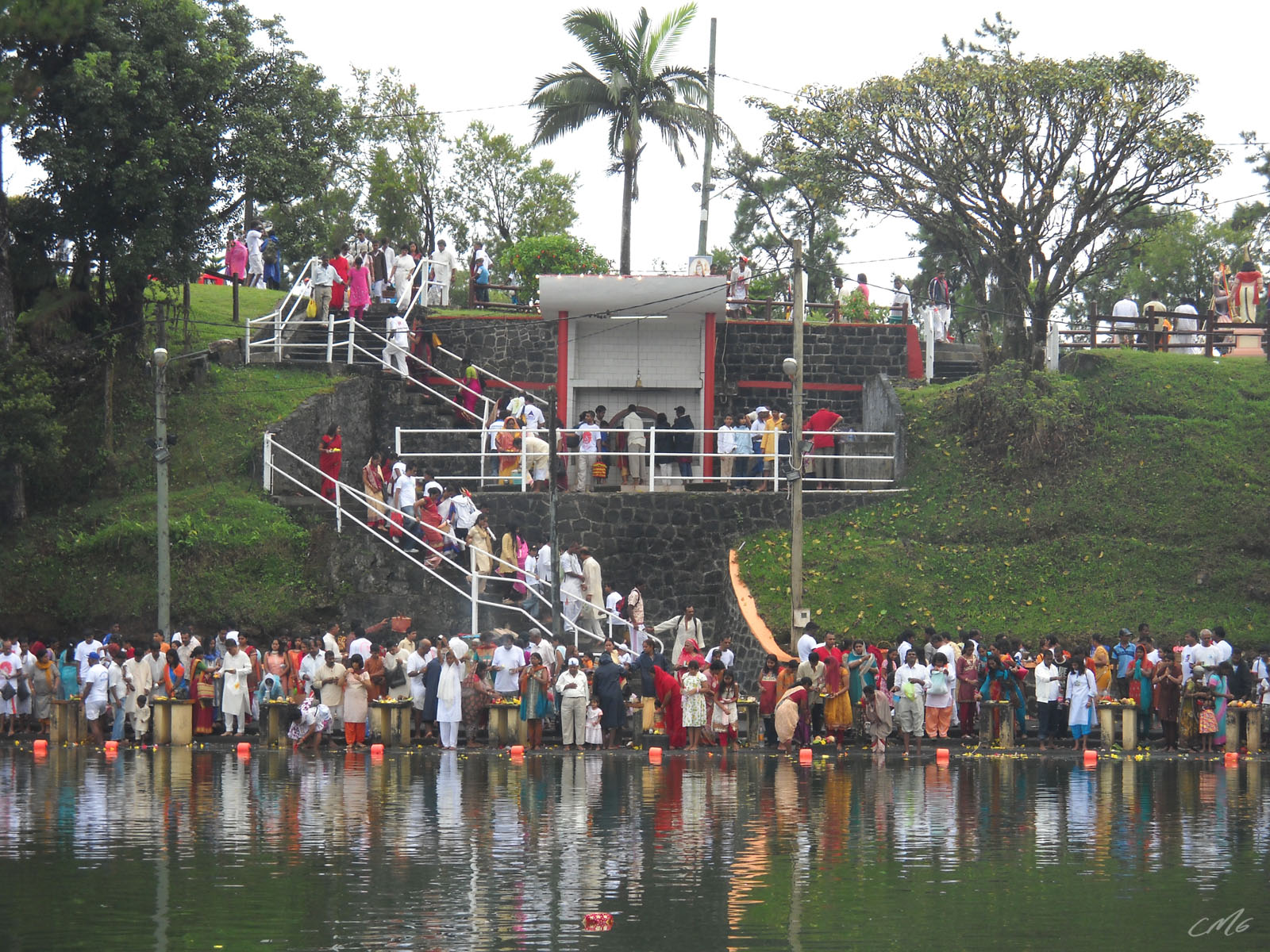 Hindu celebration in Mauritius